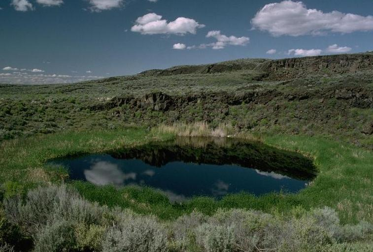 Malheur Maar in Diamond Craters Natural Area near Diamond, Oregon, 2008